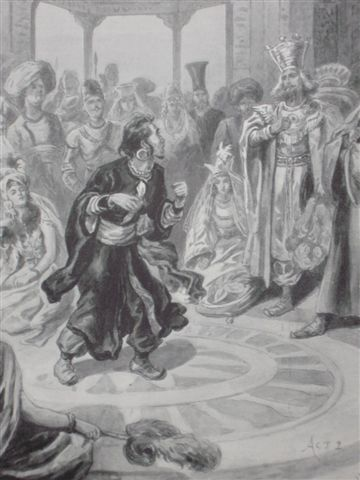 Source: Scan of illustration from Illustrated Sporting and Dramatic News, 9 December 1899, p. 537 An illustration from The Rose of Persia, 1899, captioned, "Hassan to Sultan 'It's the odd trick, O King that wins the game'"